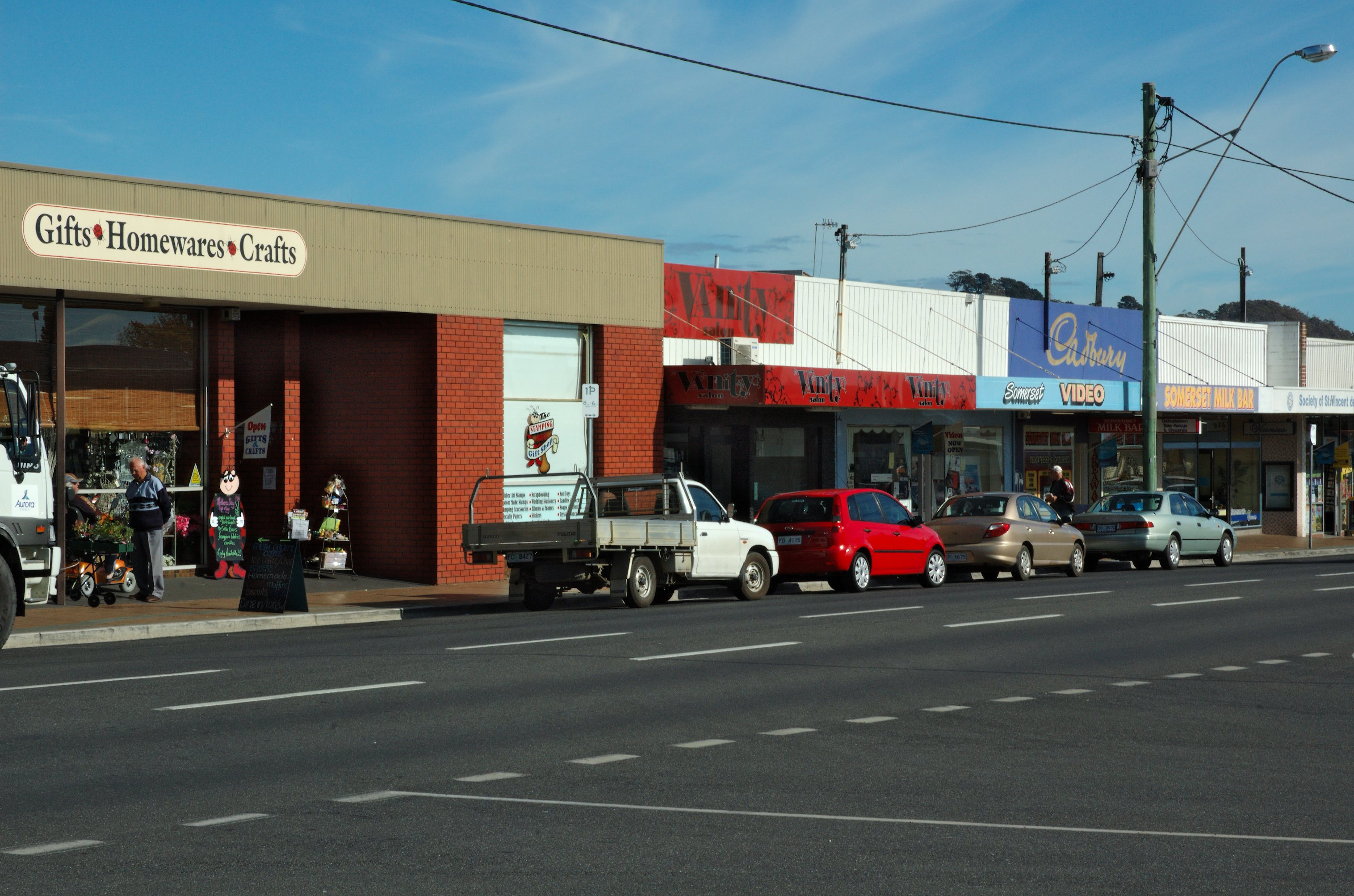 Shops in Somerset, Tasmania: The Stamping Bug Gift Shop, Vanity Salon, Somerset Video, Somerset Milk Bar.